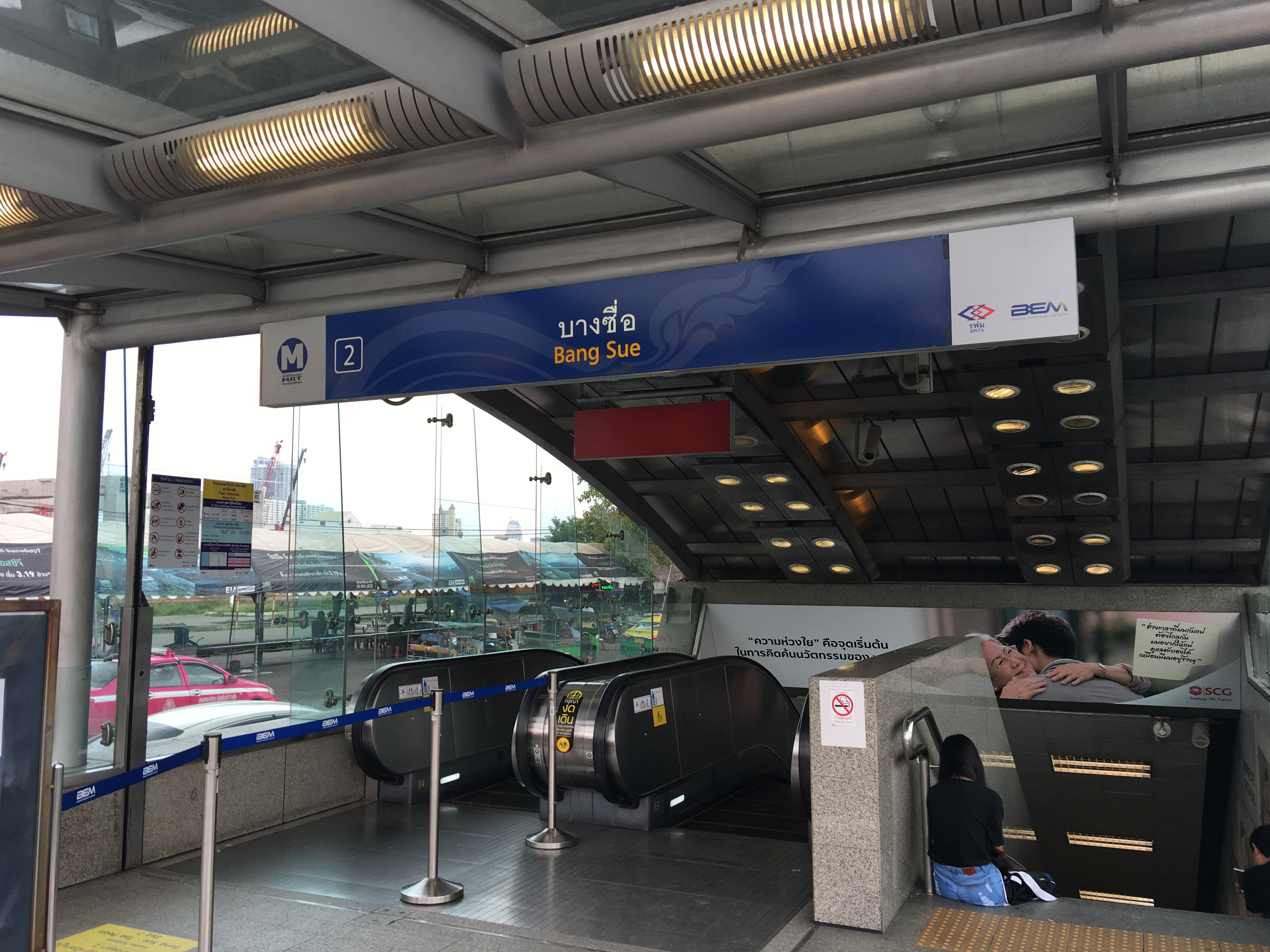 The entrance to Bang Sue MRT Station